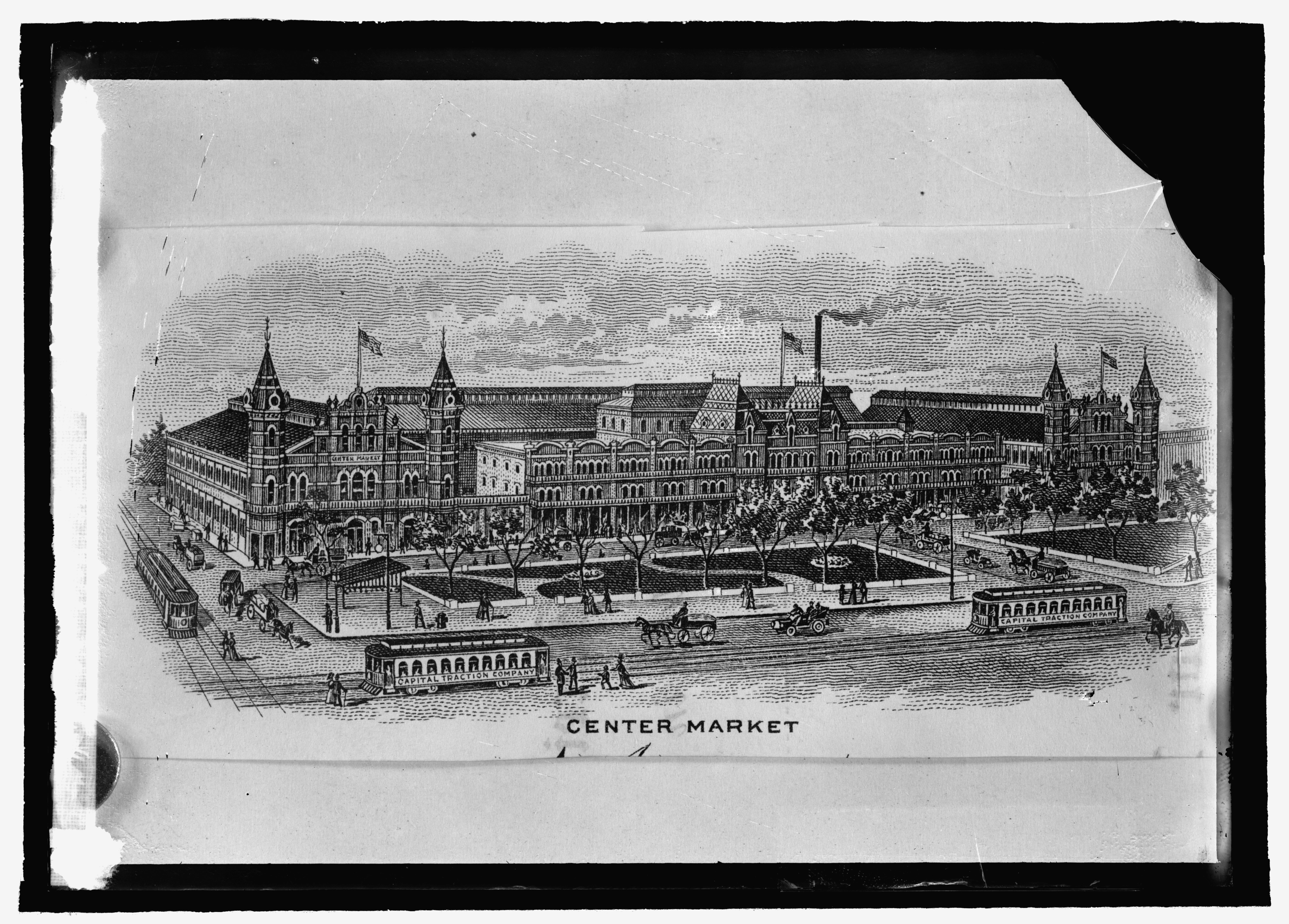 Title: Center Market Abstract/medium: 1 negative : glass ; 5 x 7 in. or smaller